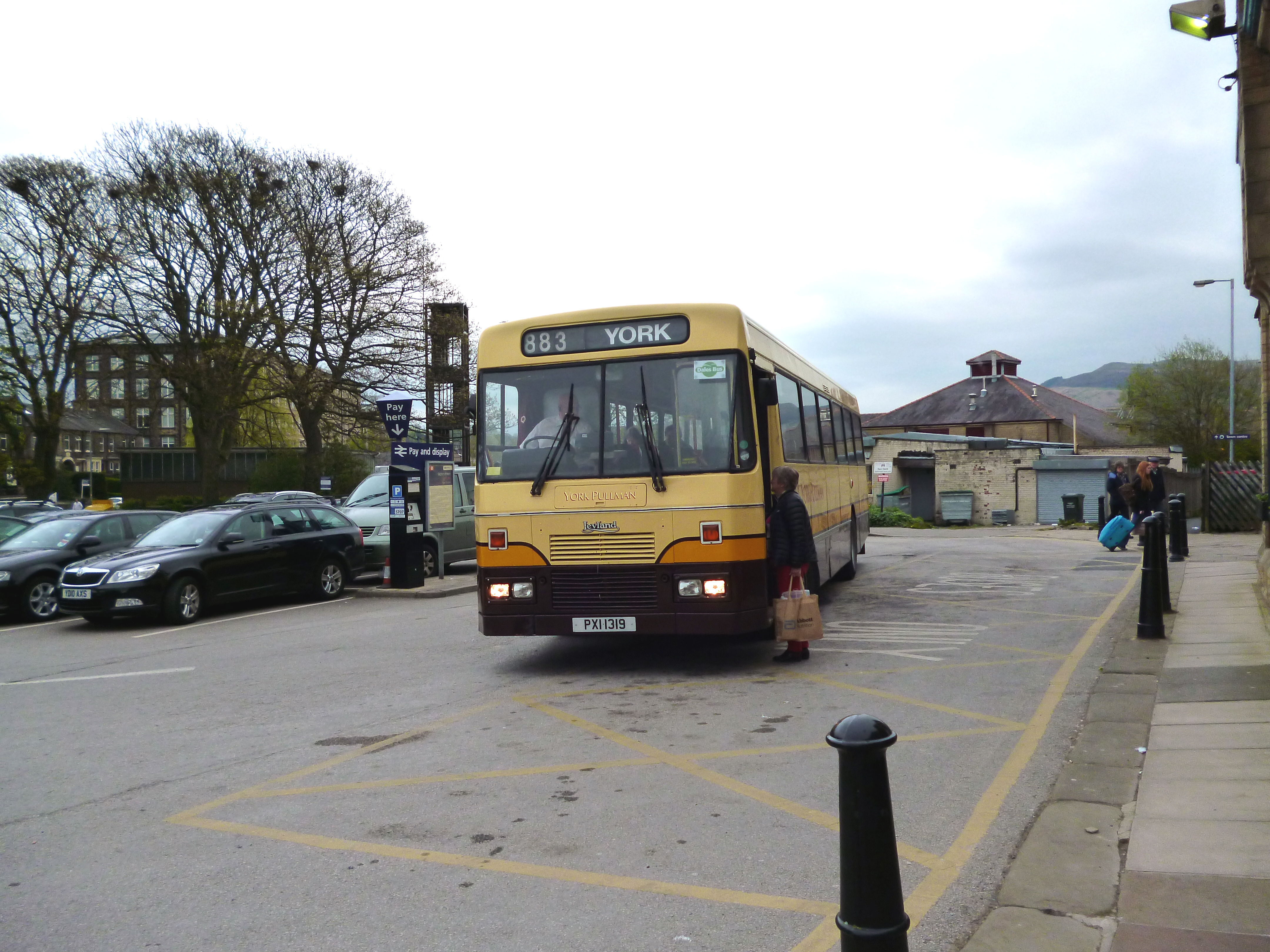 Skipton, Yorkshire: DalesBus at Skipton station. One very attractive feature of the Yorkshire Dales area is the provision of special bus services, usually on Sundays and Bank Holidays, which serve the more remote areas, so as to provide access for non-car owners. These services... more